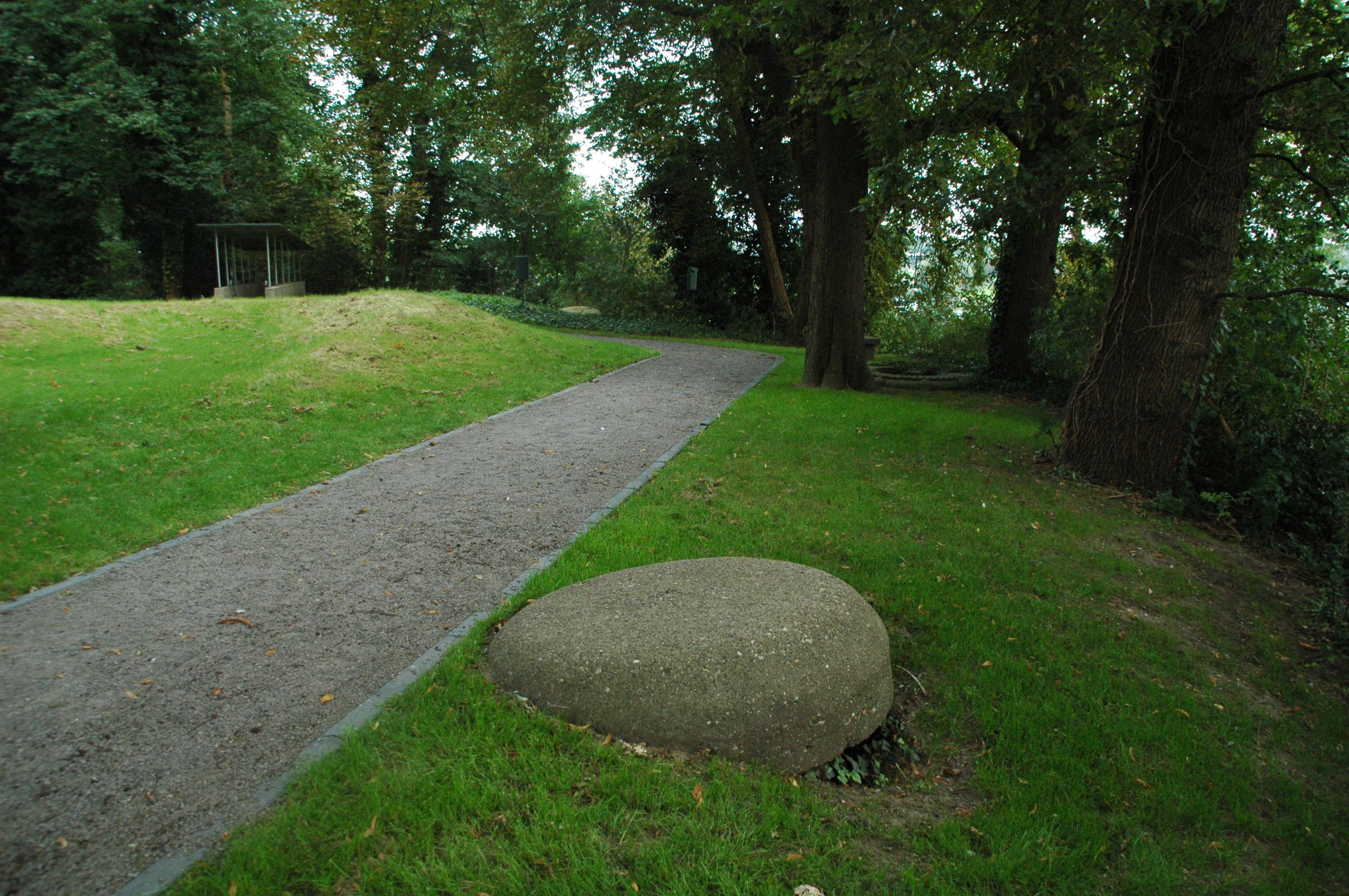 Small bunker of Pantherstellung in Arnhem